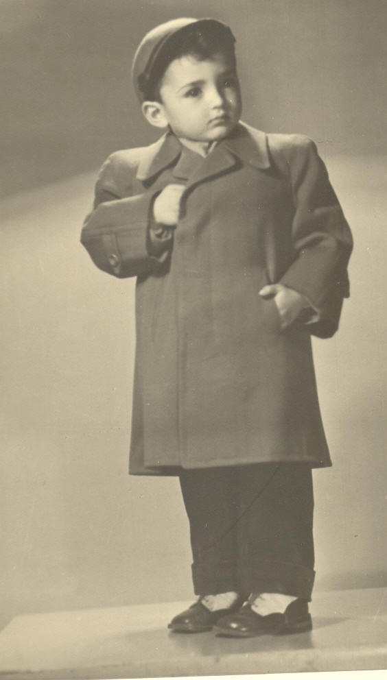 Jacob Rubinovitz as a child standing like Napoleon